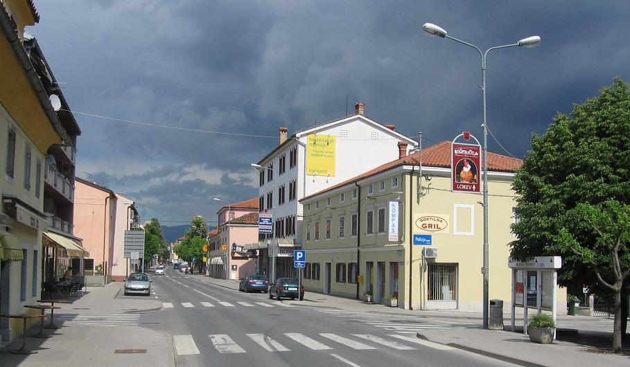 Sežana, Slovenia, view of the main street